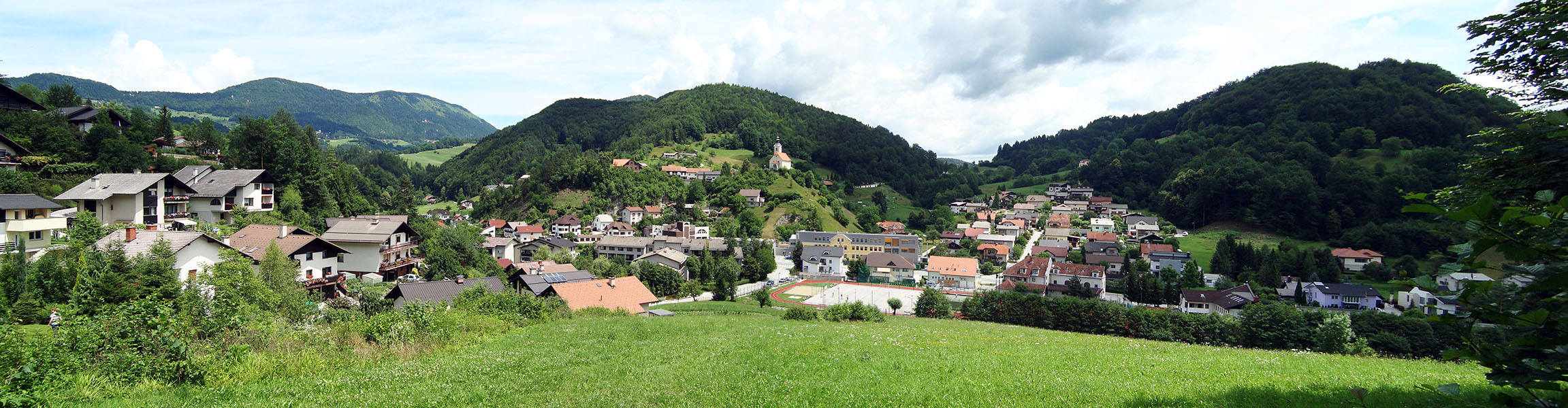 Izlake panorama